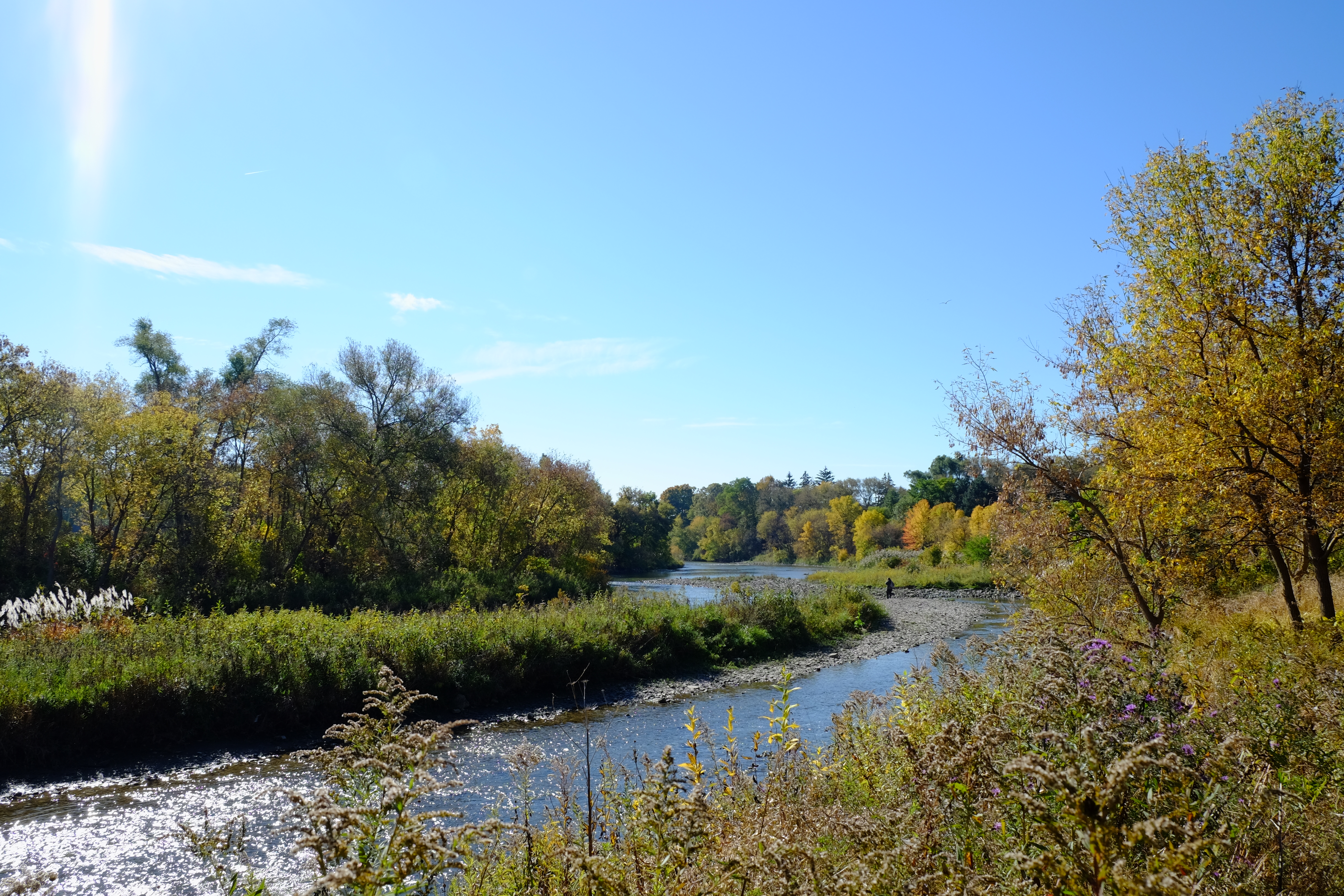 Humber River Trail - October 19th, 2015